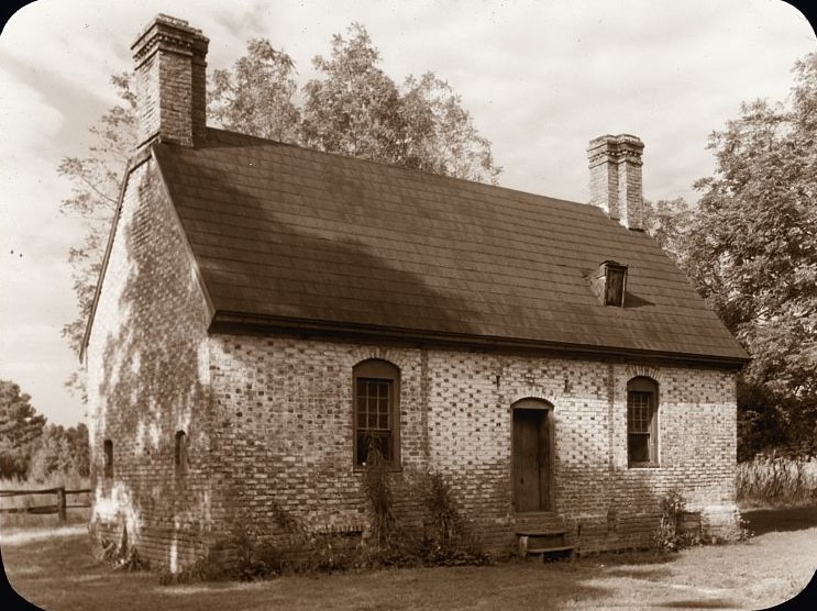 Title [Warburton dependency, Williamsburg, James City County, Virginia] Contributor Names Johnston, Frances Benjamin, 1864-1952, photographer Created / Published [between ca. 1930 and 1939] Subject Headings - Houses--Virginia--James City County--1930-1940 - Chimneys--Virginia--James City County--1930-1940 - Brickwork--Virginia--James City County--1930-1940 Format Headings Lantern slides--1930-1940. Notes - On slide (handwritten): "Warburton. James City." - Slide for lecturing on "Tales Old Houses Tell." - Title and date based on same image in the Carnegie Survey of the Architecture of the South, LC-J7-VA-2773, with additional information from Sam Watters, 2011. - Forms part of: Garden and historic house lecture series in the Frances Benjamin Johnston Collection (Library of Congress). - Formerly in Box 28. Medium 1 photograph : glass lantern slide, sepia-toned ; 3.25 x 4 in. Call Number/Physical Location LC-J717-X106- 26 [P&P] Repository Library of Congress Prints and Photographs Division Washington, D.C. 20540 USA Digital Id ppmsca 16596 //hdl.loc.gov/loc.pnp/ppmsca.16596 Library of Congress Control Number 2008675896 Reproduction Number LC-DIG-ppmsca-16596 (digital file from original item) Rights Advisory No known restrictions on publication. Online Format image Description 1 photograph : glass lantern slide, sepia-toned ; 3.25 x 4 in. LCCN Permalink